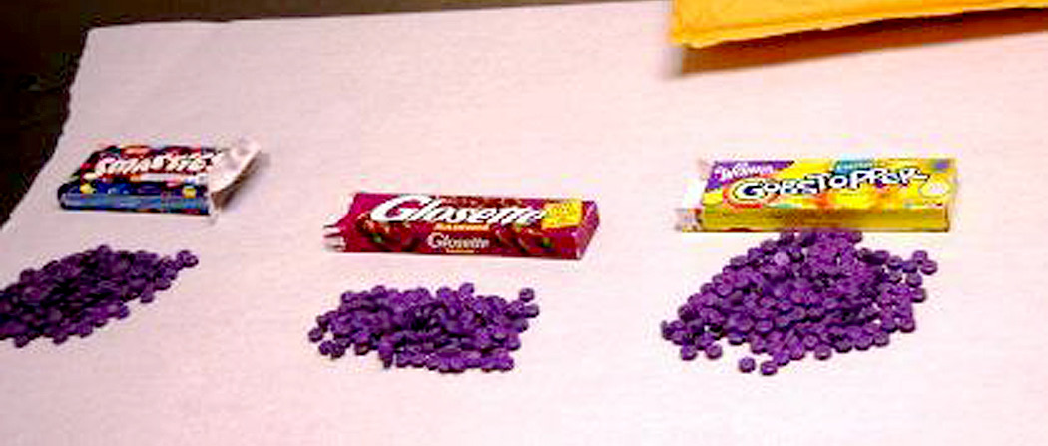 MDMA concealed in commercial candy